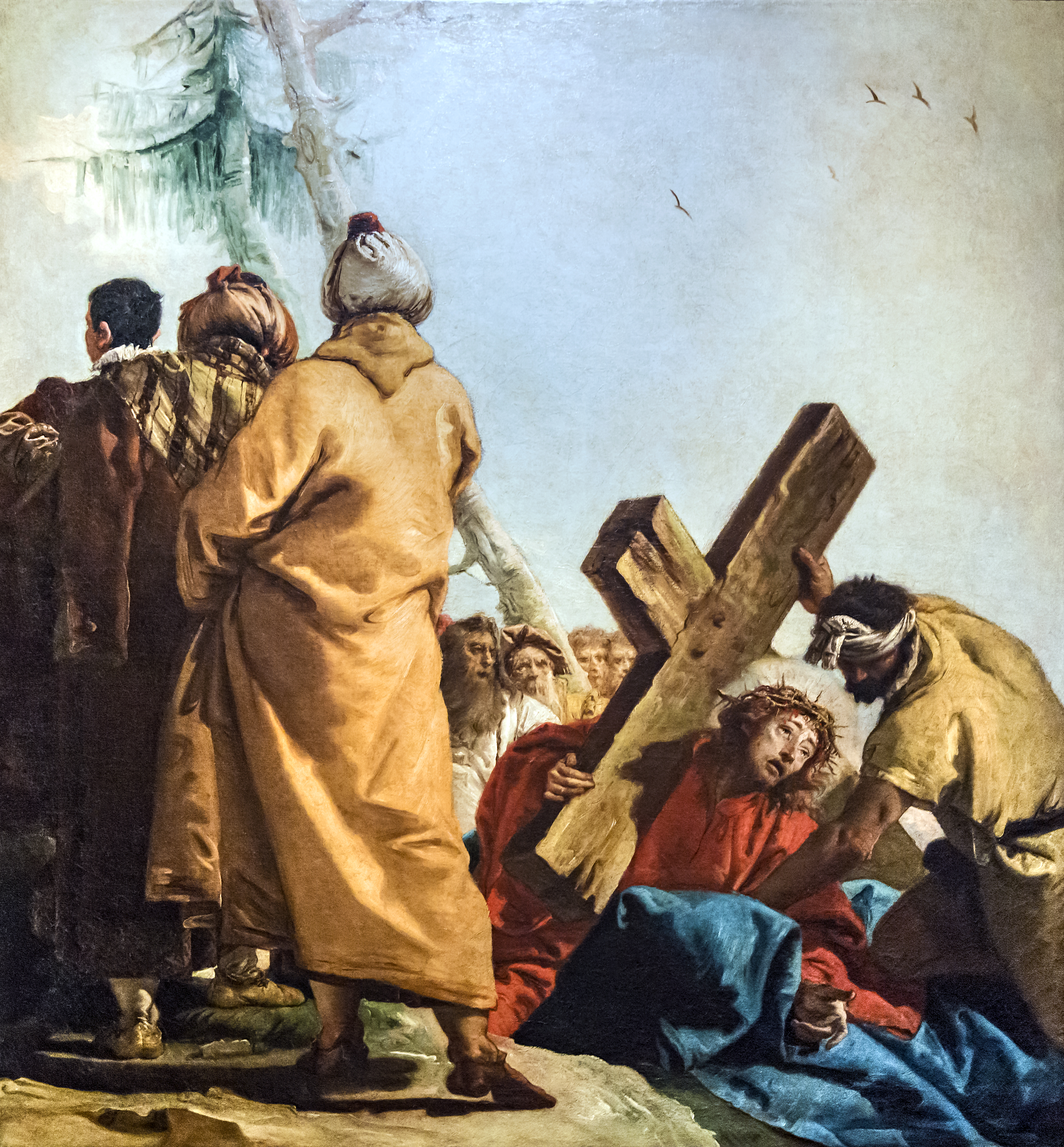 San Polo (church) - Oratory of the Crucifix - VIA CRUCIS VII - Jesus falls the second time by Giandomenico Tiepolo. Oil on canvas (1745 -1749).